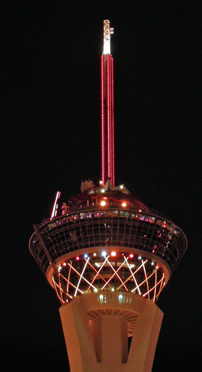 Picture taken by user izx, January 2006.